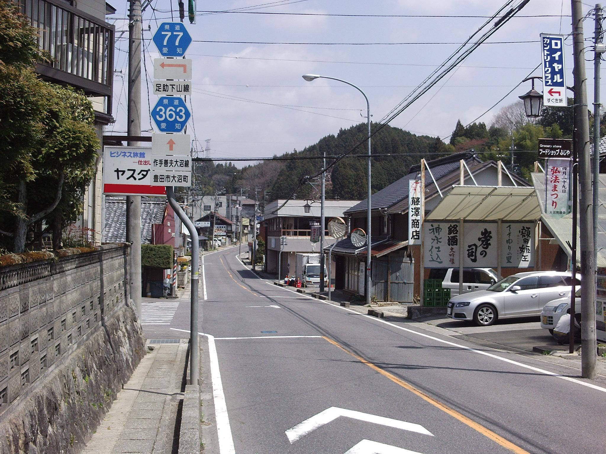 Aichi prefectural road No.363 in Onumacho, Toyota, Aichi.